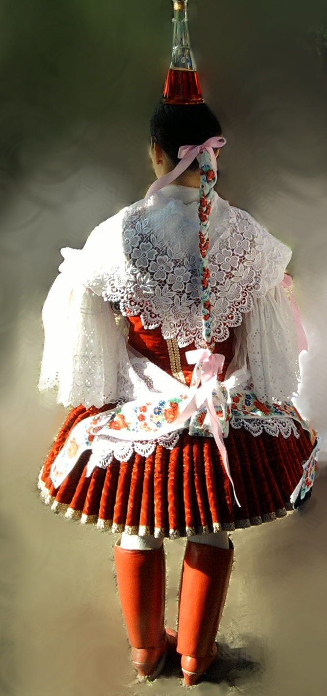 Traditional clothes in Bíňa